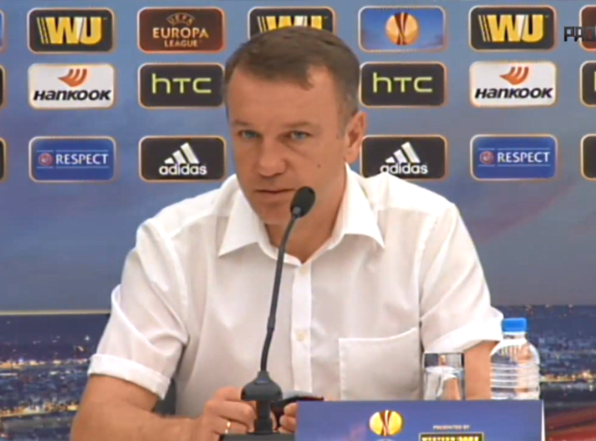 Uladzimir Zhuravel (September 2014)